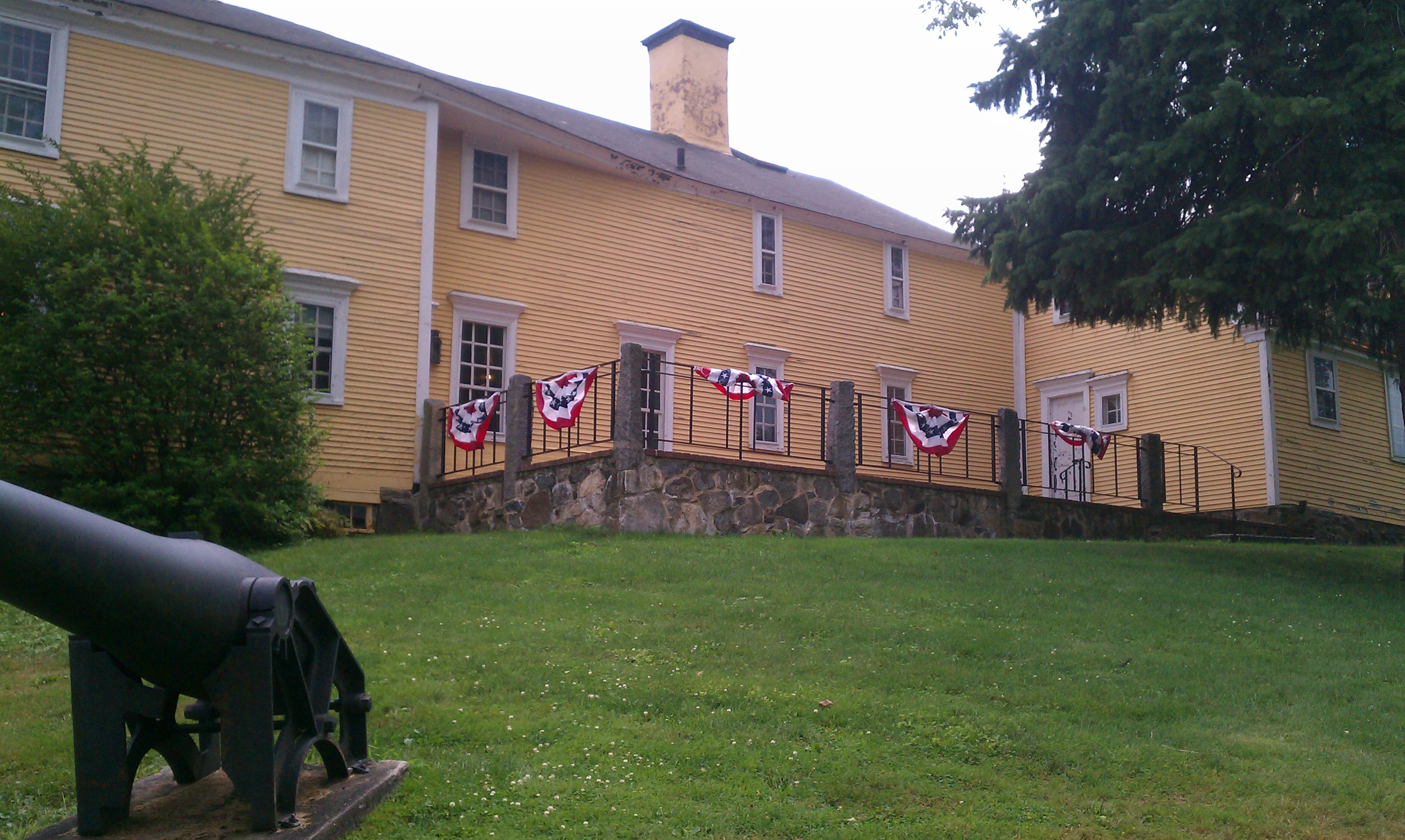 The back of the Gilman-Ladd House, now the main building of the American Independence Museum, in Exeter, New Hampshire